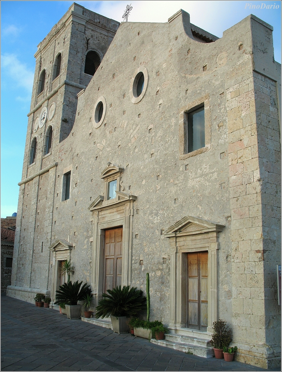 titled St Nicolò